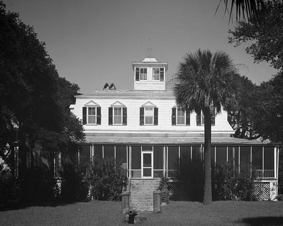 Sunnyside Plantation, County Road 767, Edisto Island (Charleston County, South Carolina) (cropped)